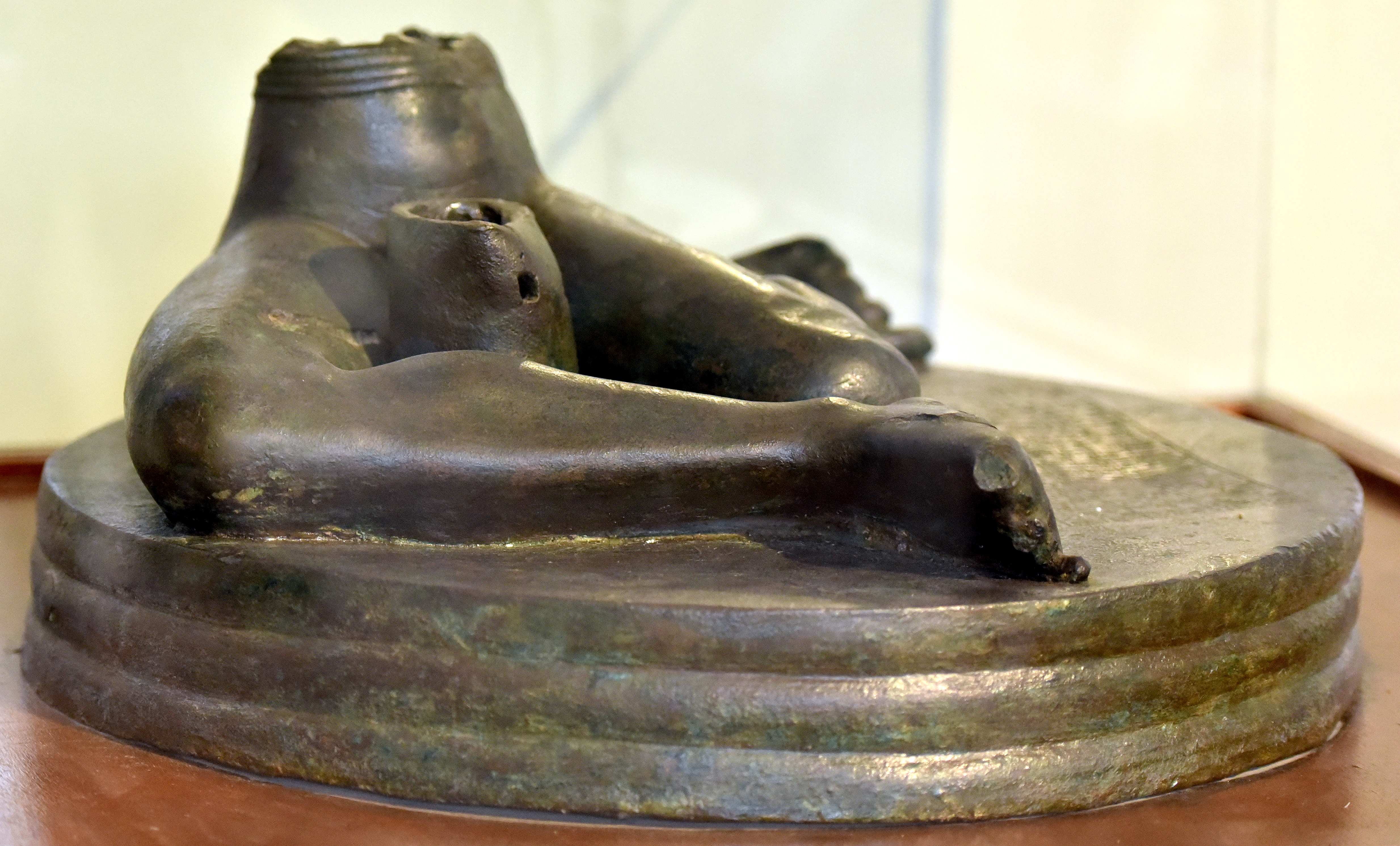 The name of the Akkadian king Narma-Sin appear on the statue's base. The Bassetki statue was looted somewhere between April 10-12, 2003 CE, after the fall of Saddam's regime. In November 2003 CE, a combined raid by the American Military Police and Iraqi Police retrieved the statue, which was covered with axle grease and submerged in a cesspool in a house in the outskirts of Baghdad. The Bassetki Statue was number 2 on the list of the 30 most-wanted looted artifacts from the Iraq Museum in April 2003 CE. Akkadian period, 2300-2200 BCE. On display at the Iraq Museum in Baghdad, Republic of Iraq.